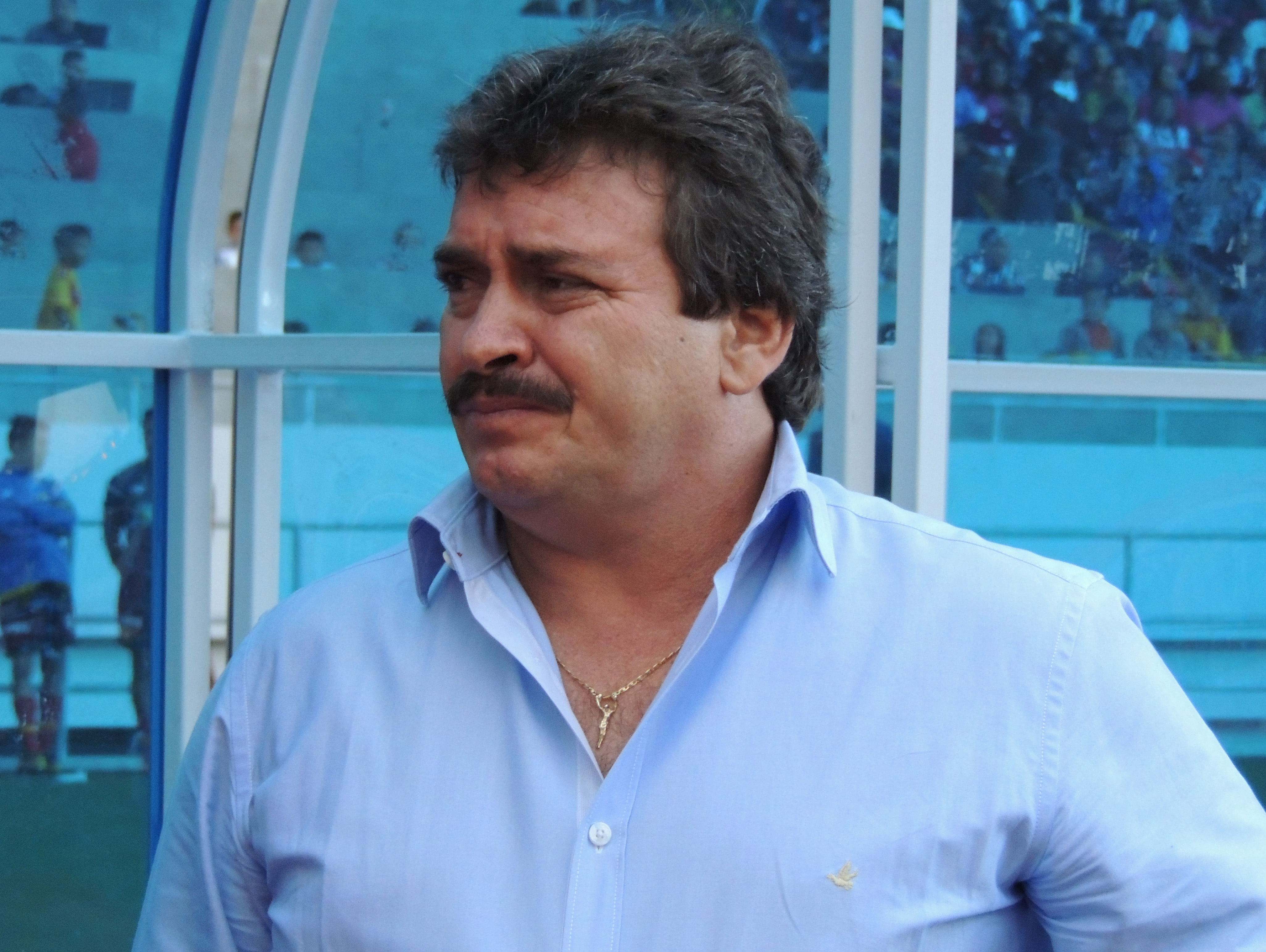 Óscar Ramírez, coach of L.D. Alajuelense in 2015.